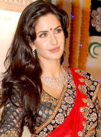 Katrina Kaif at an event for Nakshatra